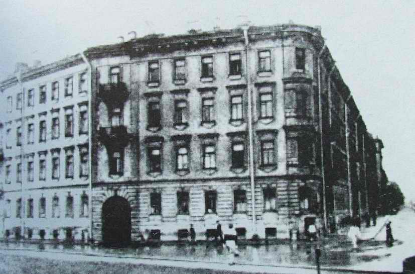 Alexandr Blok - Haus in Ofizerskaya street (Dekabristov) 1912-1921